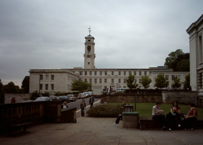 The Trent Building at the University of Nottingham.